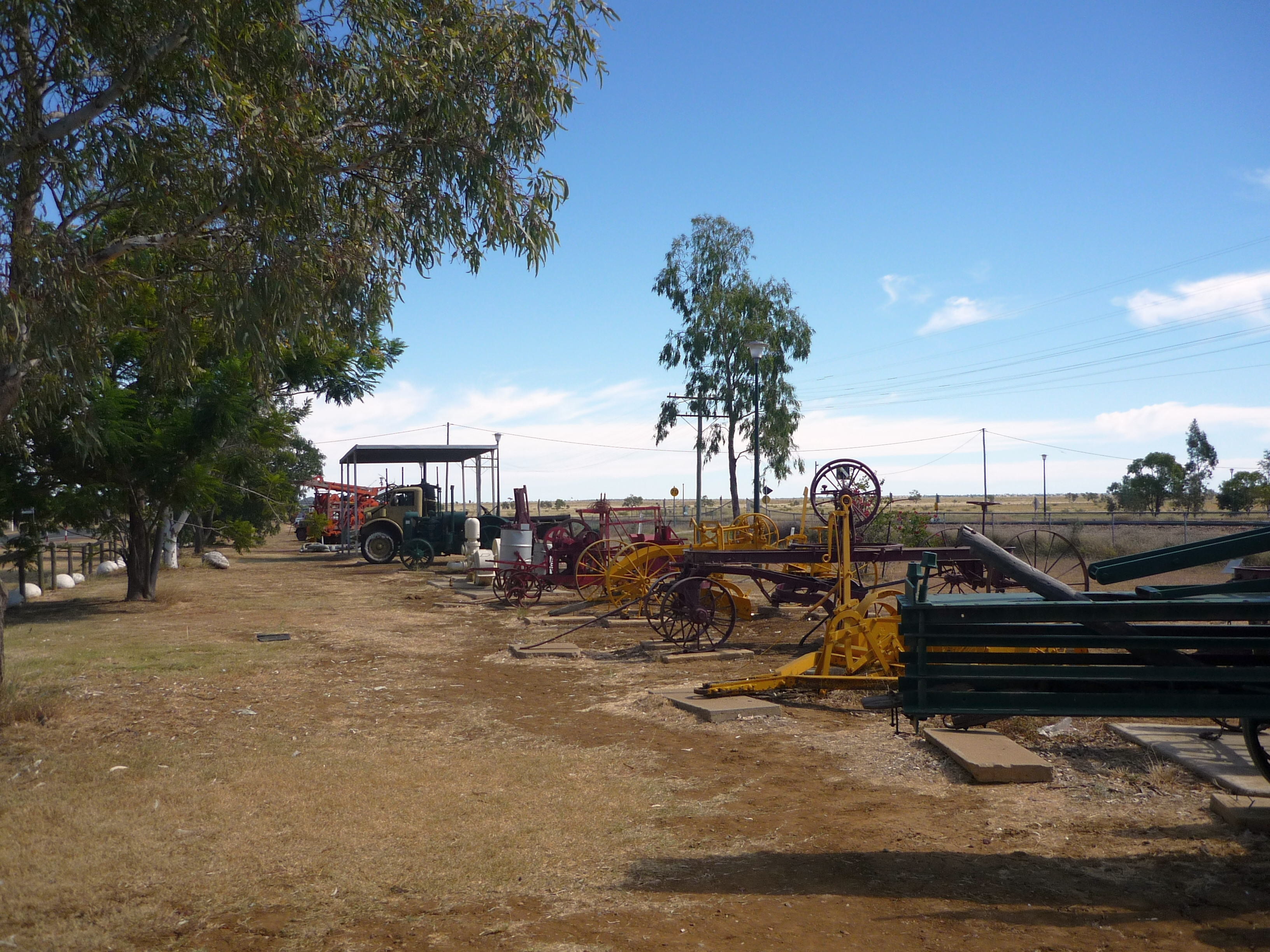 Photo of old farming equipment along the Landsborough Highway at Ilfracombe, Queensland